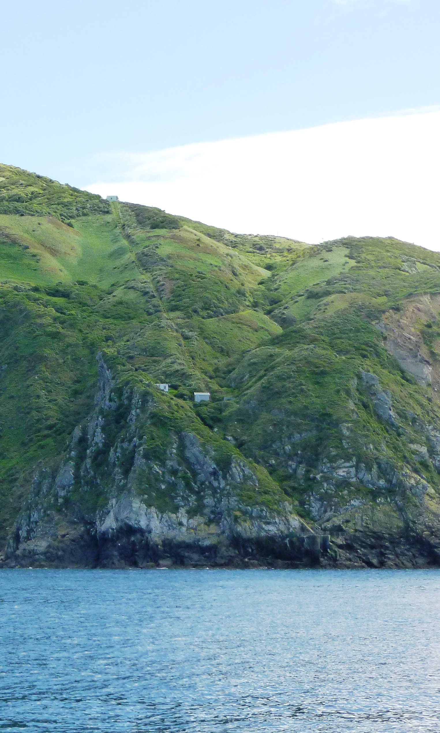 This vertical tramway was constructed in 1891 to carry materials 183 metres up to the Stephens Island Lighthouse